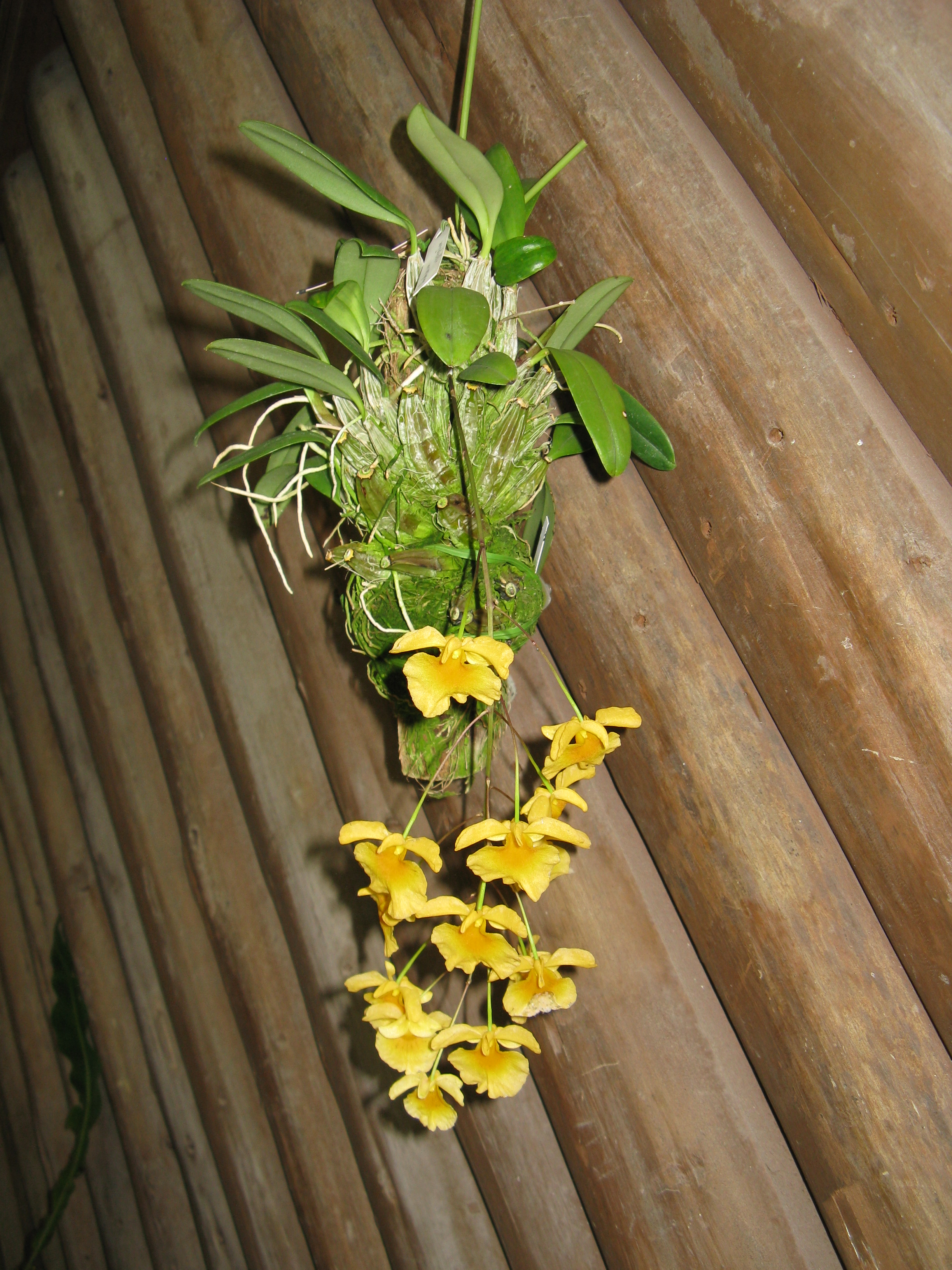 Scientific name Dendrobium aggregatum Place:Osaka Prefectural Flower Garden,Osaka,Japan